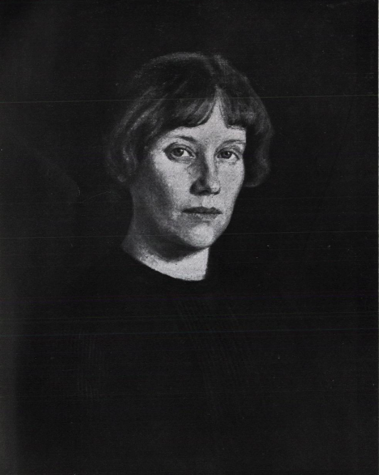 Norwegian painter Kris Torne, selfportrait